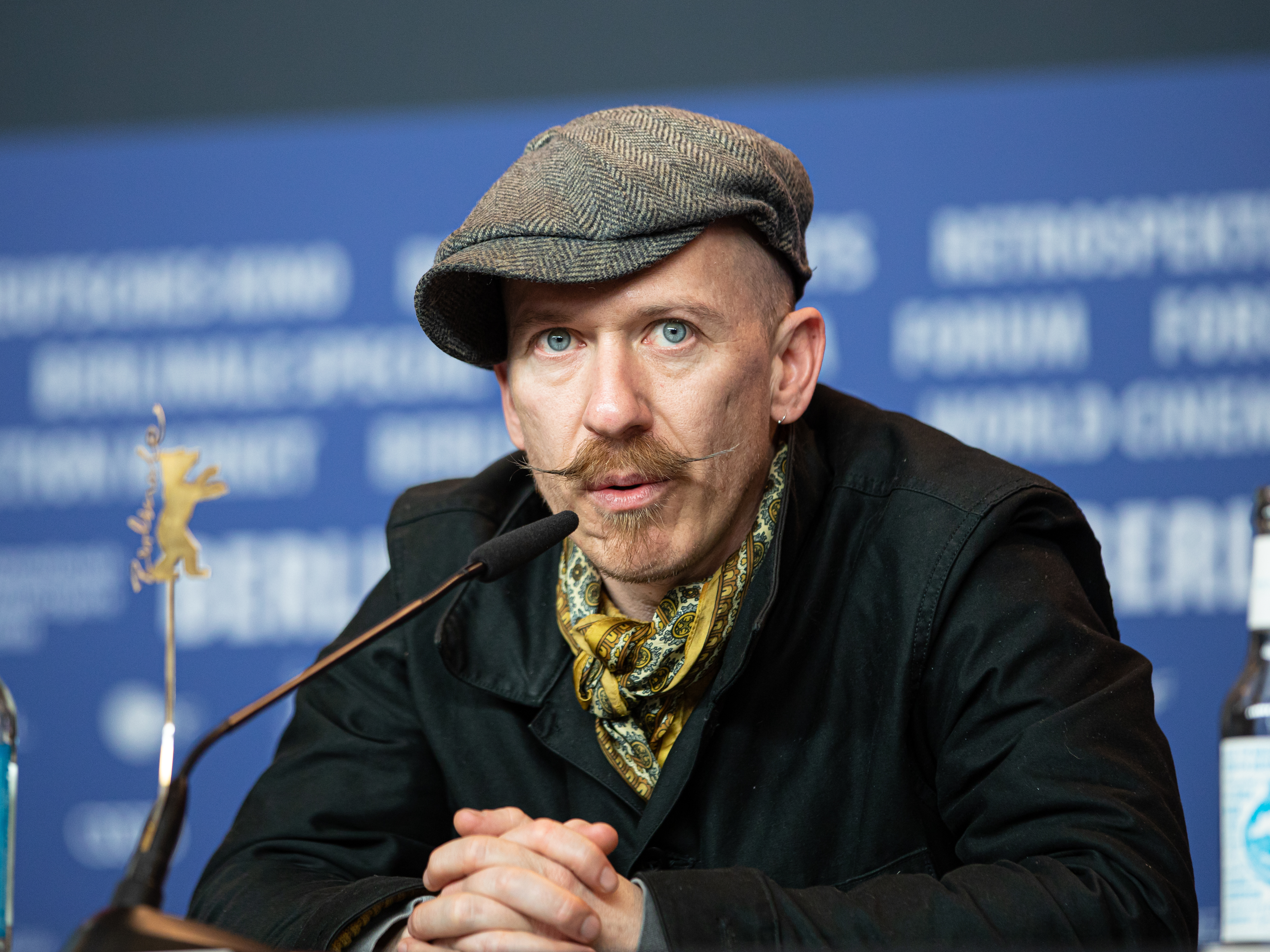 Singer-songwriter Foy Vance at the 68th Berlin International Film Festival 2018